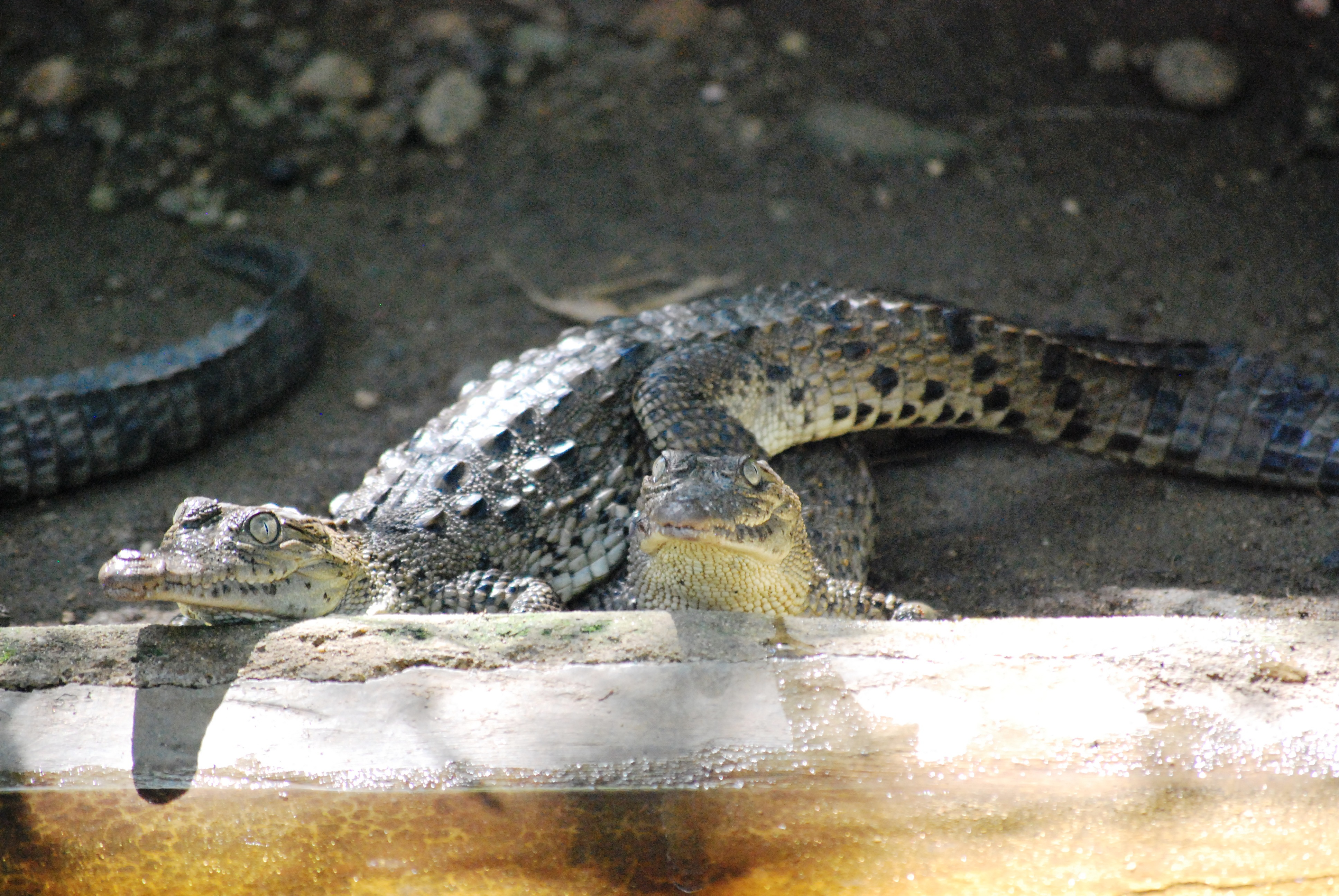 Baby crocs being raised for release at Uma Island in the lagoon at La Ventanilla, Tonameca, Oaxaca, Mexico